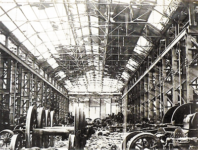 Zhuzhou Railway Factory under Japanese bombing in 1937.